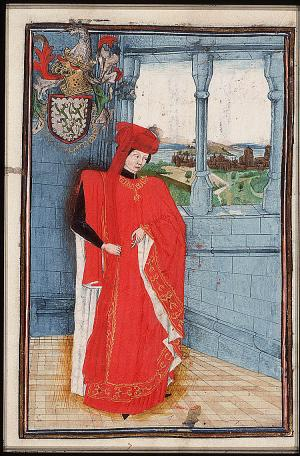 1 = Statuts, Ordonnances et Armorial de l'Ordre de la Toison d'Or (Statutes, Ordonnances and armorial of the Order of the Golden Fleece) Place of origin, date: Southern Netherlands; 1473. Added sections: Southern Netherlands; 1478 or shortly after and 1491 or shortly after Material: Vellum, ff. 86, 249x187 (167x106) mm, 23 lines, littera cursiva (lettre bourguignonne). French. Binding: 18th-century brown leather Decoration: 1 full-page miniature (170x115 mm) with border decoration; 92 miniatures (185/155x120/100 mm); 1 historiated initial (80x90 mm) with border decoration; decorated initials with border decoration (ff., Added section: miniatures ; 4 drawings for miniatures (not finished) Provenance: Presented in 1473 by Gilles Gobet, King of Arms of the Order of the Golden Fleece, to Charles the Bold, Duke of Burgundy and the other Knights during the Chapter of the Order held at Valenciennes; Treasure of the Golden Fleece, Brussls; taken away by the Treasurer C.-F. Humyn (d. 1735) or his daughter C.Ch. de Corte; by legacy to her daughter M.-L. de Corte, wife of Ph.-E. de Poederlé; purchased in 1781 at the Poederlé sale by G.-J- Gérard of Brussels; acquired in 1832 as part of the Gérard collection (no. A 27)